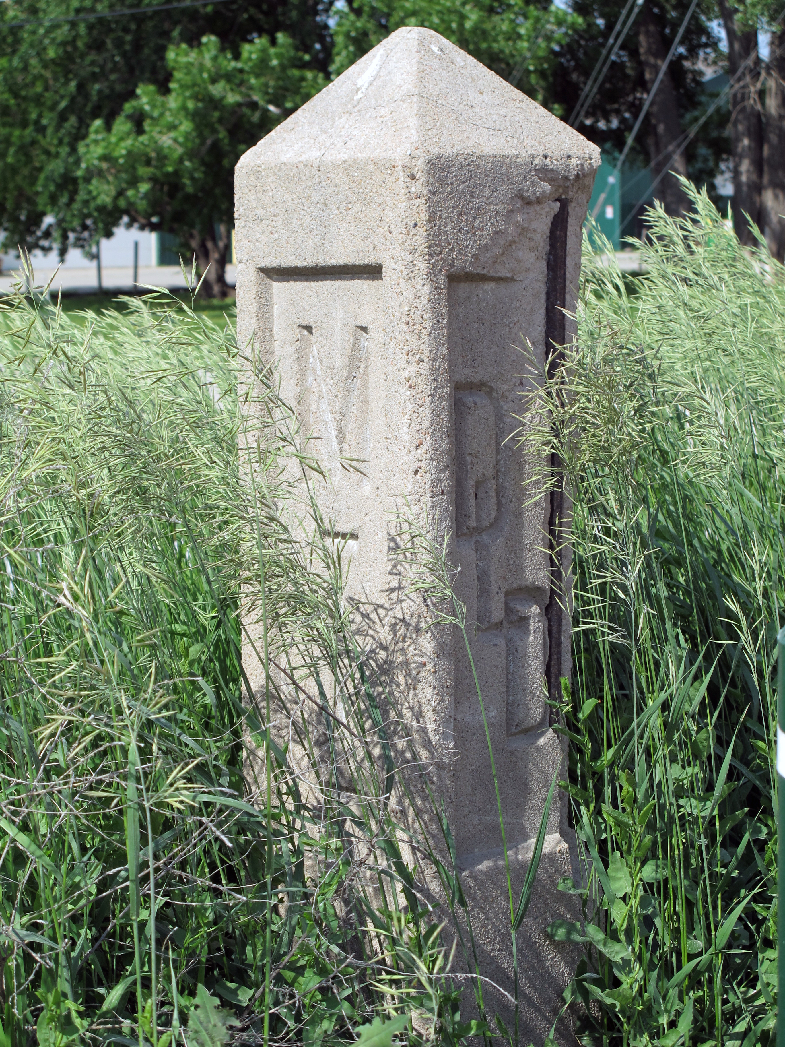 Photo of an original Detroit-Lincoln-Denver (D-L-D) Highway monument, as seen at the northwest corner of N. 2nd & "P" Streets in Lincoln, Nebraska. Photo is looking northeast at the monument.